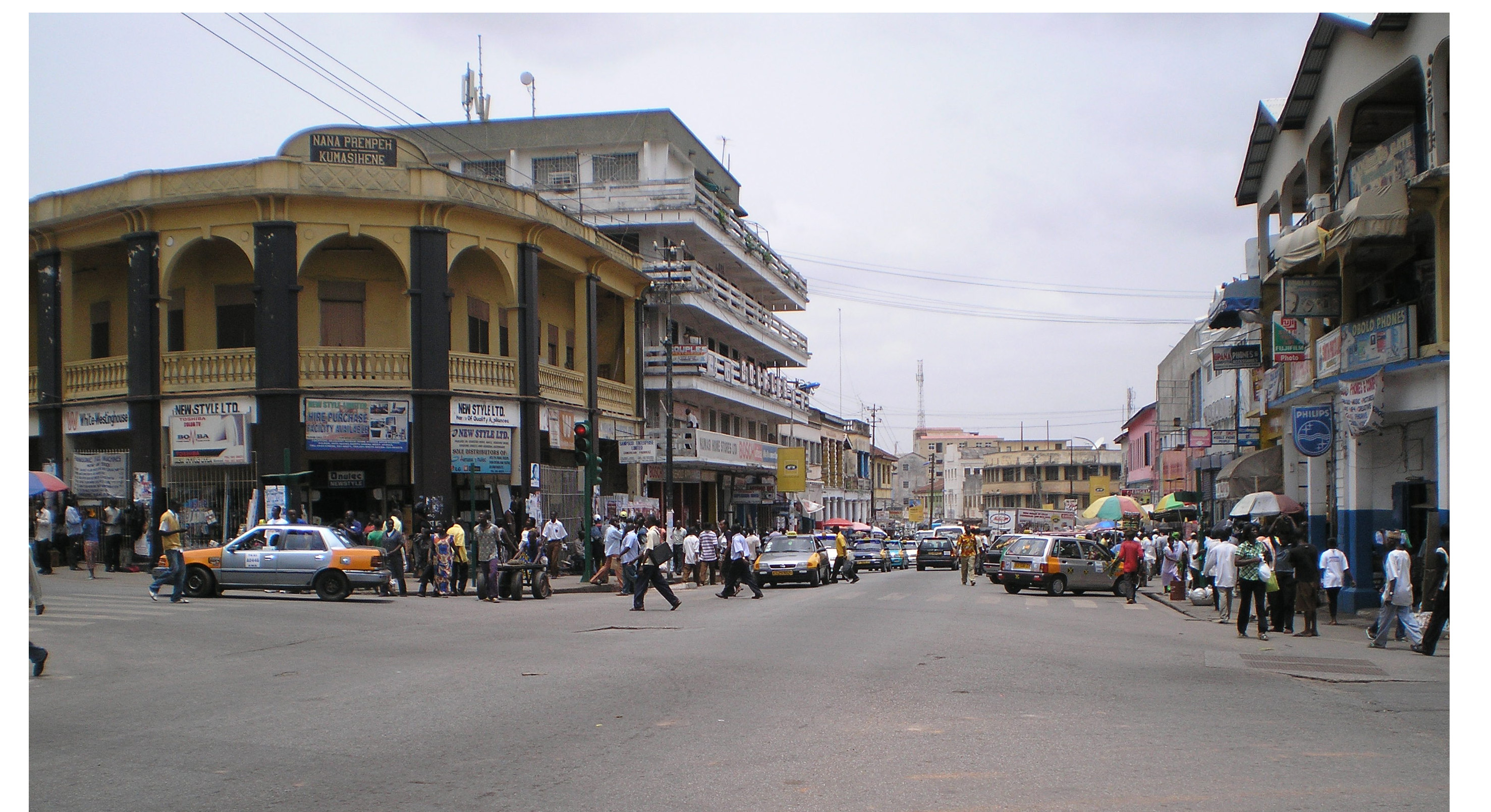 The main shopping street in the center of Kumasi, Ghana